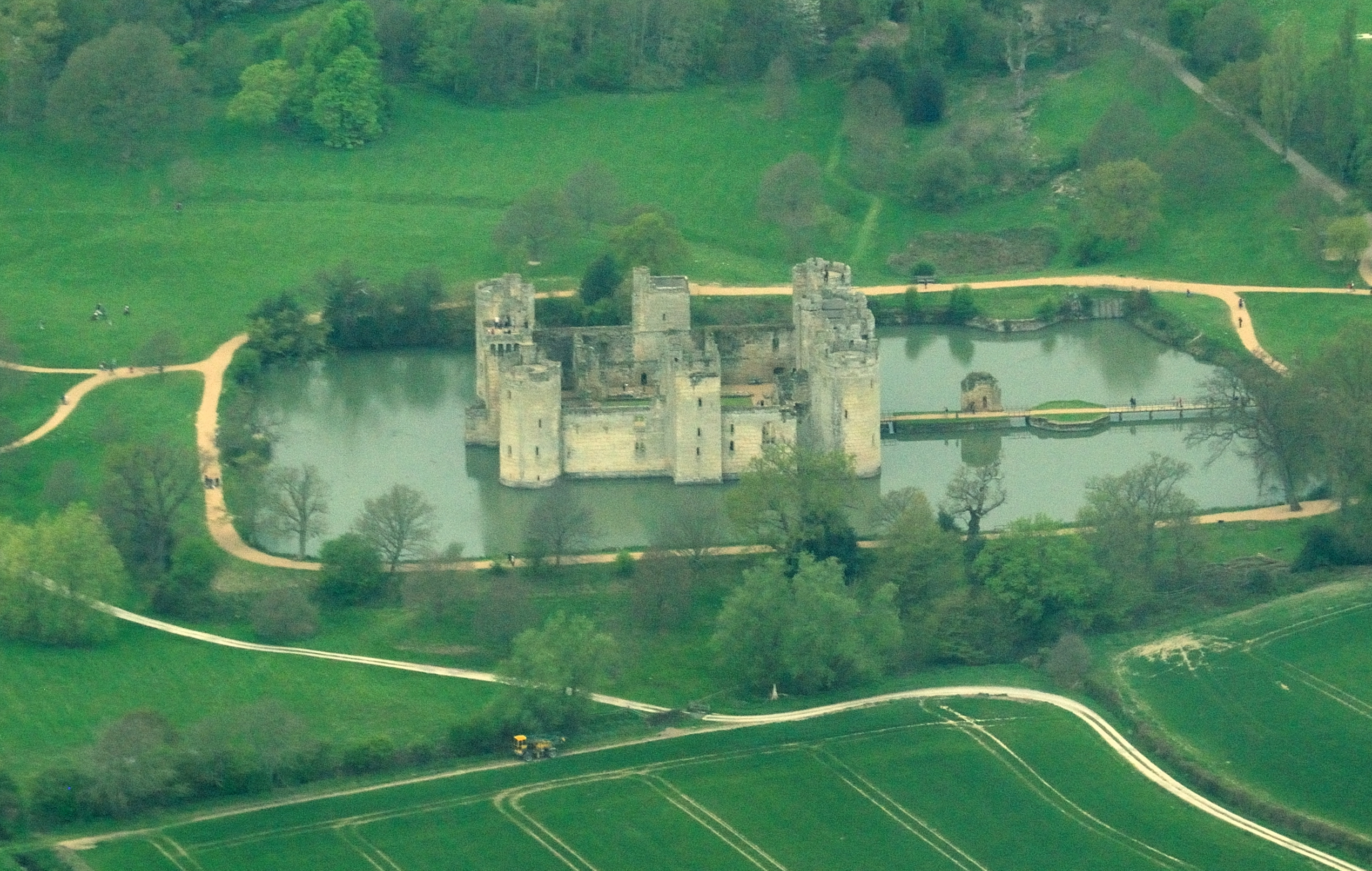 Aerial View of Bodiam Castle, East Sussex, England. Nikon D60 f=125mm f/7.1 at 1/800s ISO 800. Processed using Nikon ViewNX 1.5.2 and GIMP 2.6.6.